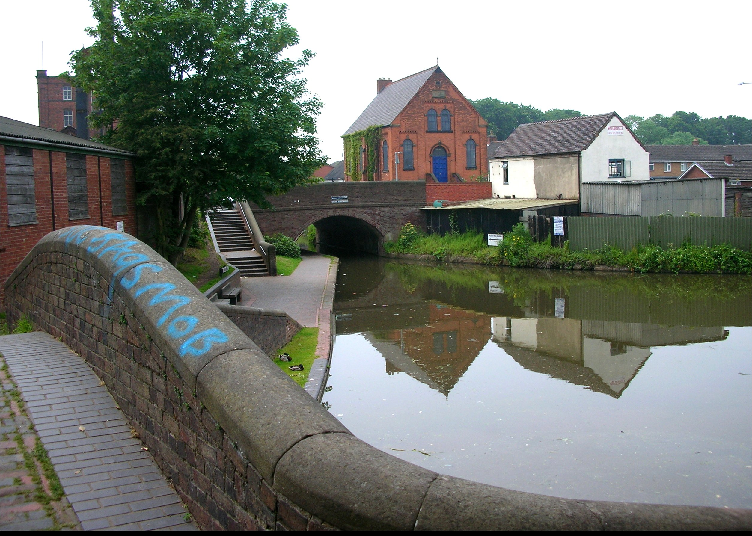 Fazeley Junction on the Birmingham and Fazeley Canal. The Watling Street Bridge, seen from the roving bridge over the Coventry Canal, looking southwards. Photographed by me 8 June 2007. Oosoom 23:11, 8 June 2007 (UTC)